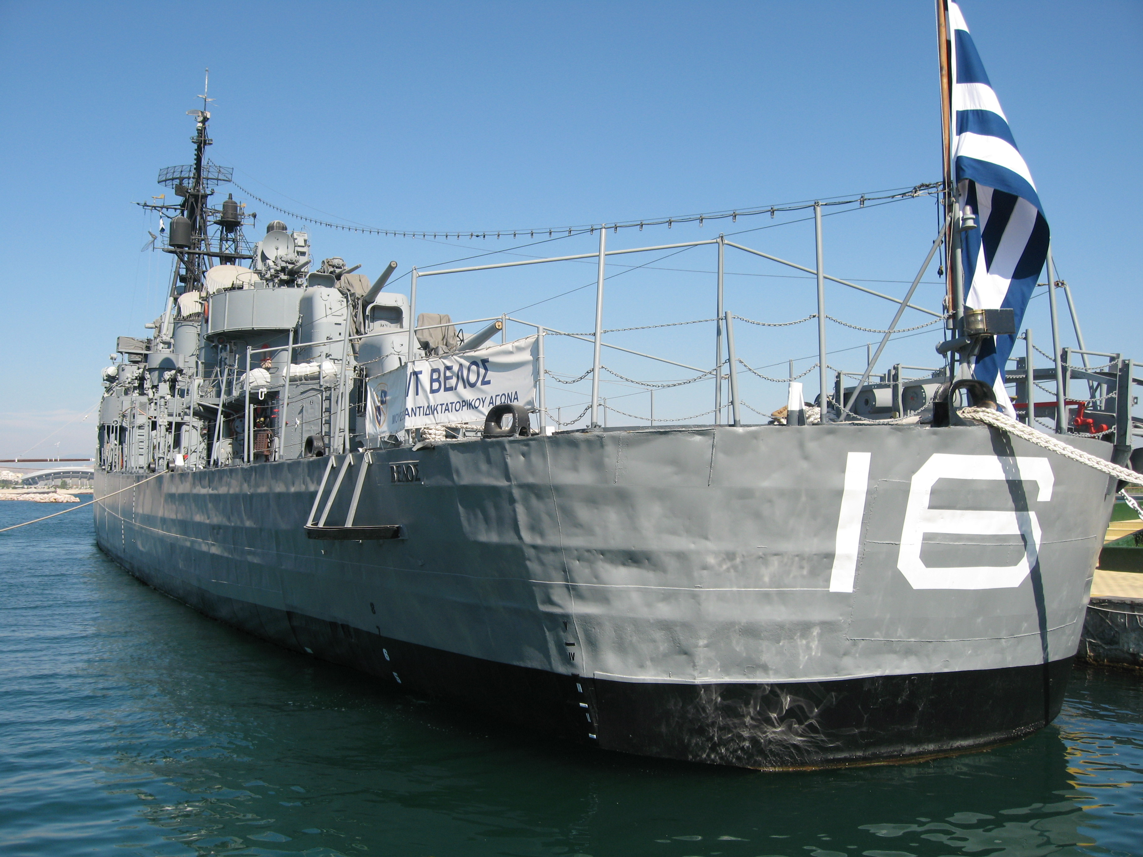 Destroyer Velos D16 formerly USS Charrette as floating Museum of Antidictatorship Struggle